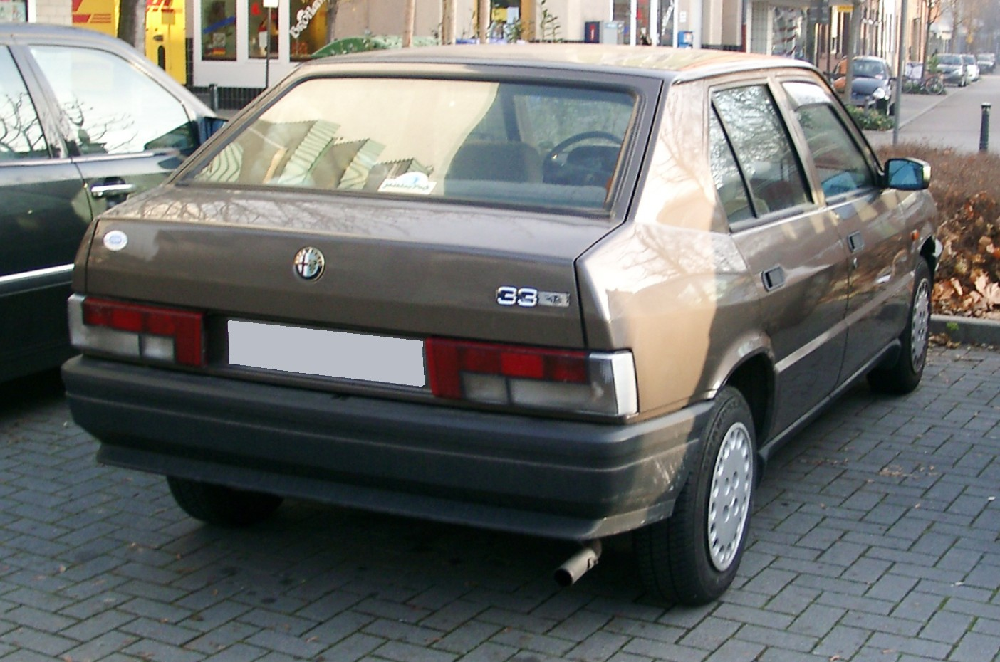 Facelift Serie I Alfa Romeo 33 berlina in Germany